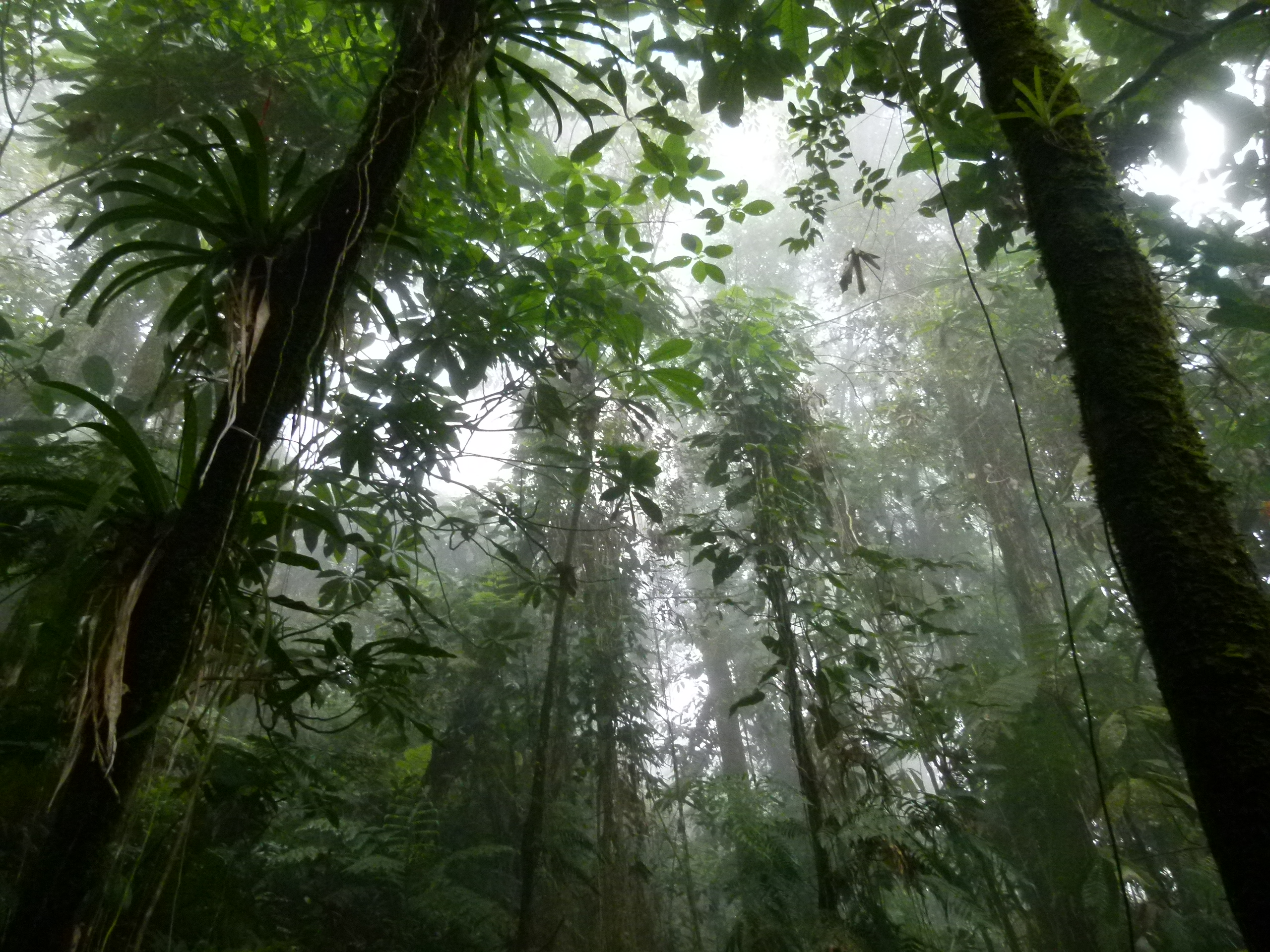 Primary forest in Sierra Nevada de Santa Marta, Colombia